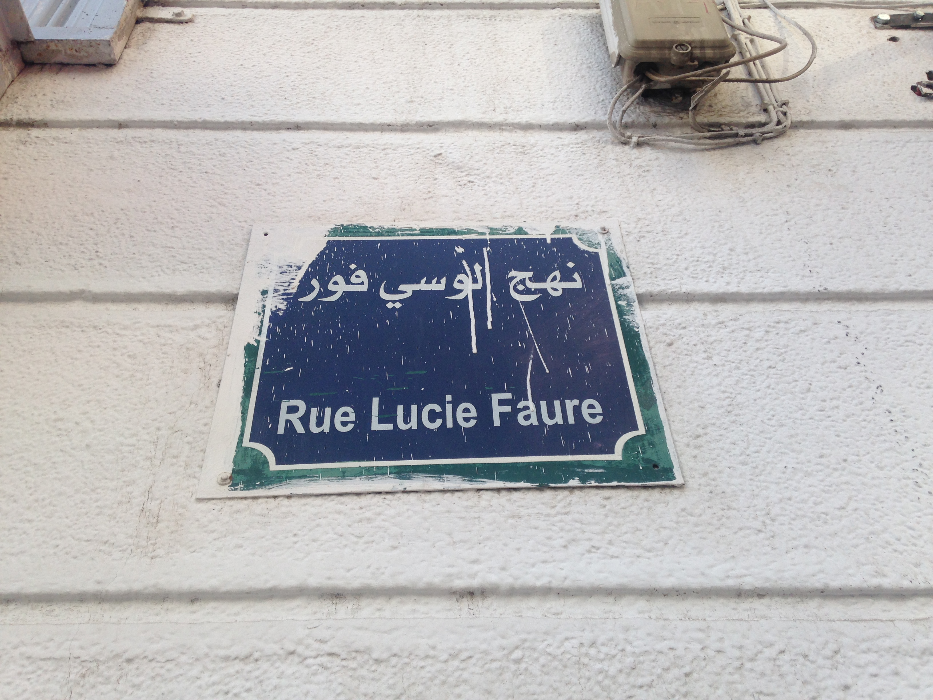 Street Lucie Faure Tunis